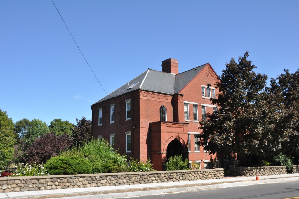 The former Peabody School building in Haverhill, Massachusetts.